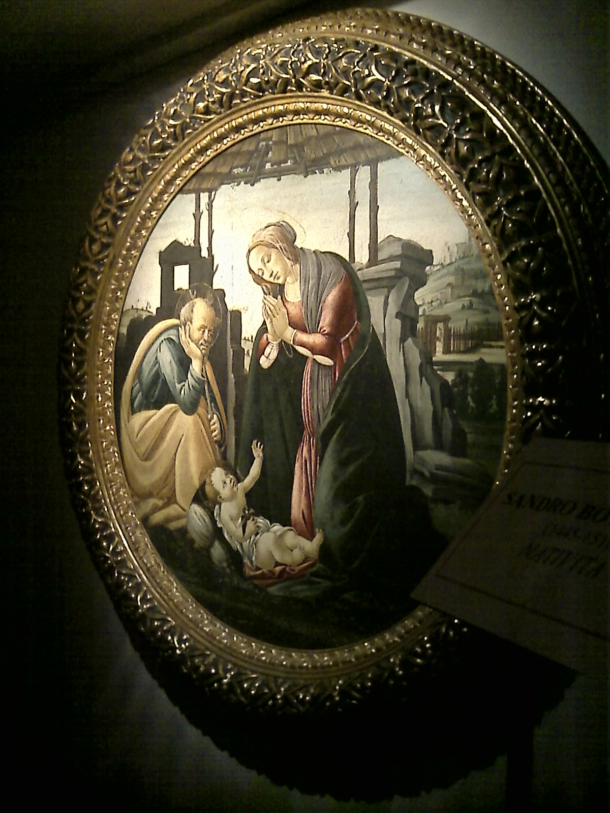 Sandro Botticelli's Nativity (1445-1510)